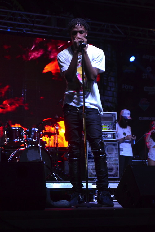 Basel Castle 2013